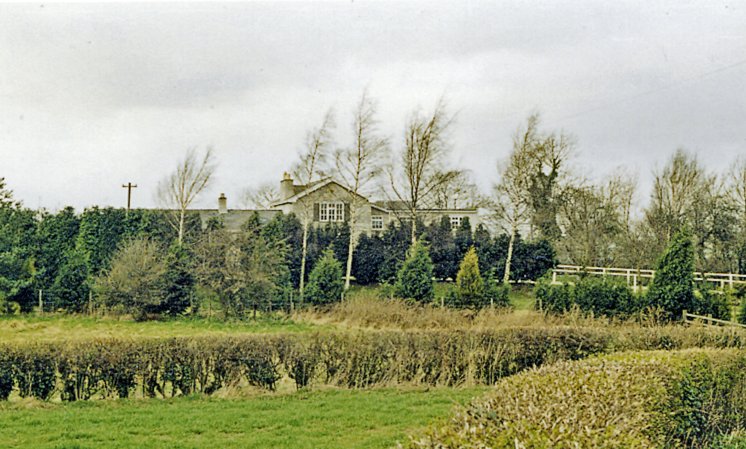 Site of Copgrove station, 1989. View westward to route of former ex-NER Knaresborough - Pilmoor branch. The station was closed with withdrawal of passenger services on the branch from 25/9/50, but goods traffic continued until 5/10/64.